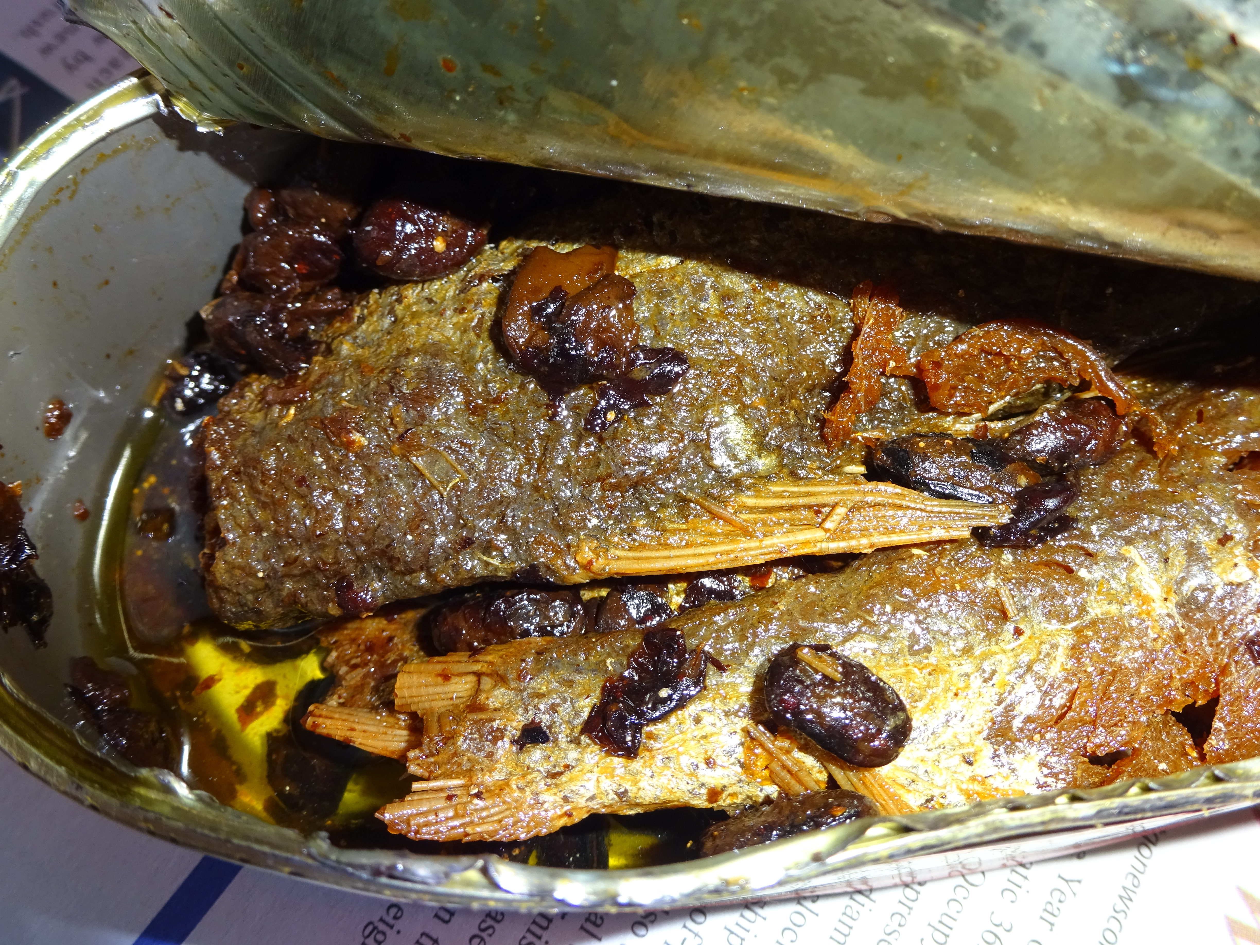 豆豉鯪魚, canned Fried Dace fish with Salted Black Beans